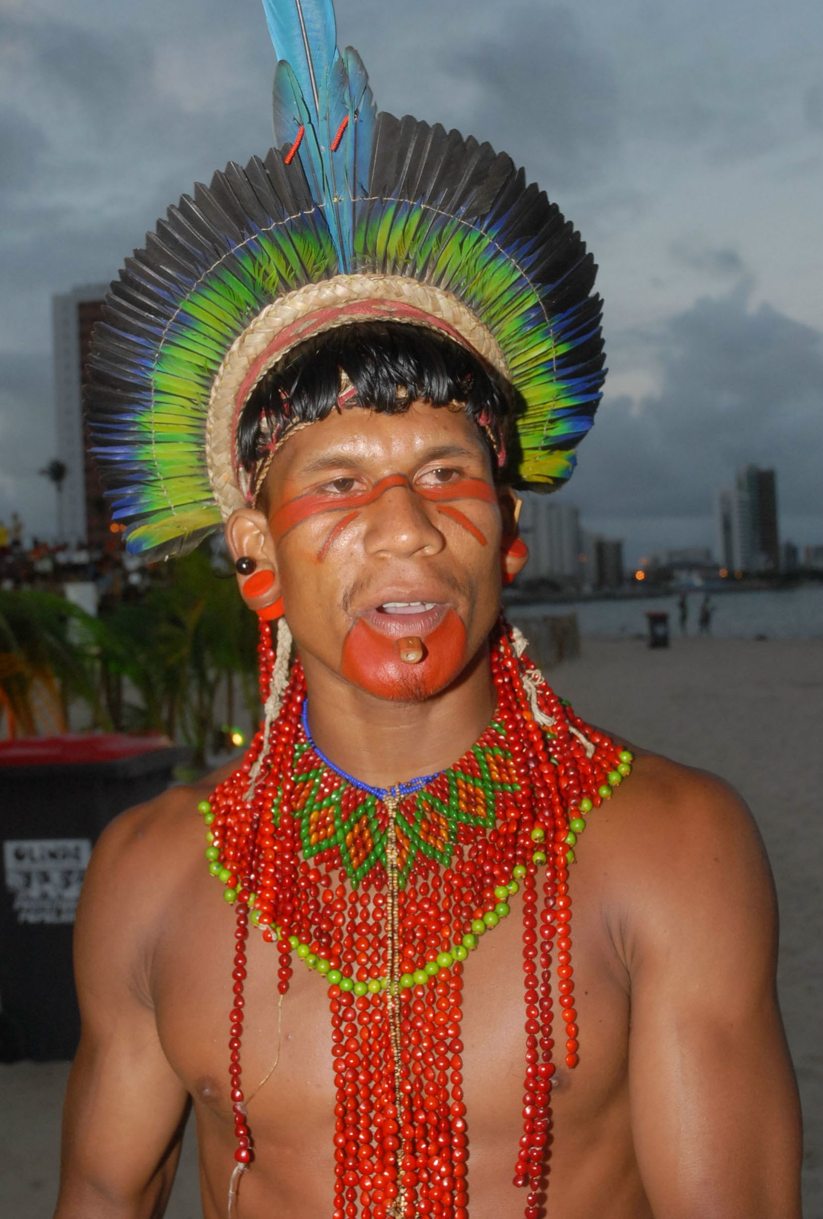 Pataxó man, 9th Indigenous Games, Brazil